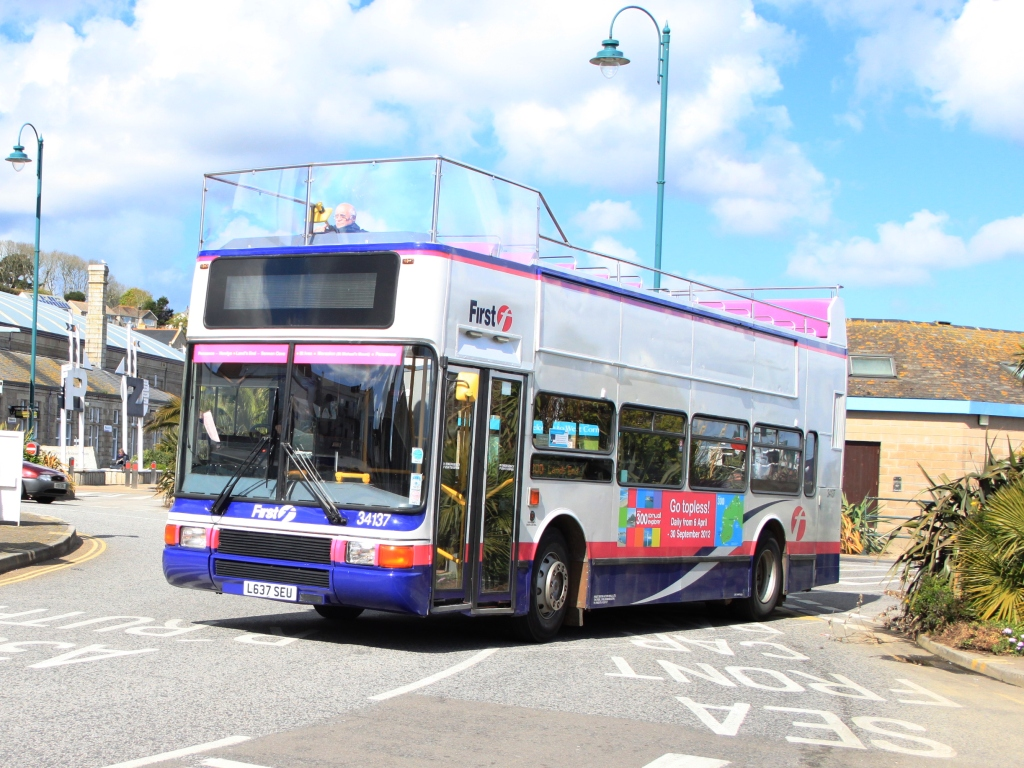 A First Devon and Cornwall leaves Penzance Bus Station for a circular journey around Lands End. It is number 34137 (L637 SEU), a Volvo Olympian with Palatine body that has had its roof removed for tourist services in Cornwall.